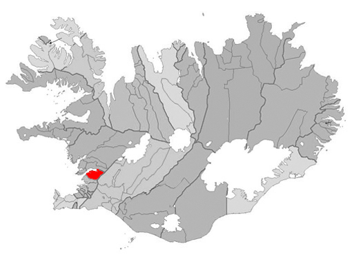 Based on Municipalities of Iceland.png.